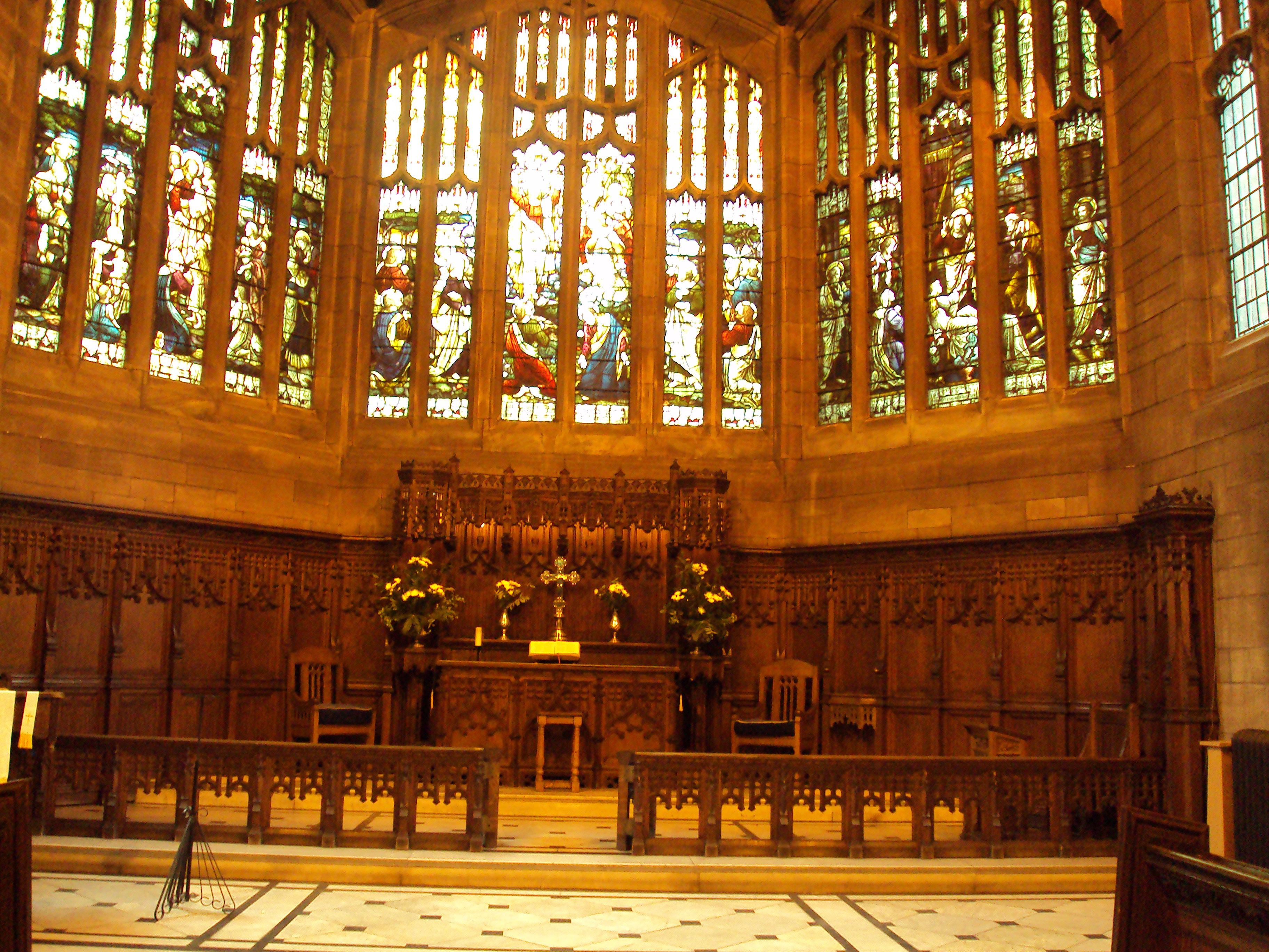 Inside Christ Church, Port Sunlight, Merseyside, England.